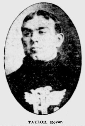 Ice hockey player Frederick "Cyclone" Taylor with the Portage Lakes Hockey Club in the 1905–06 season.